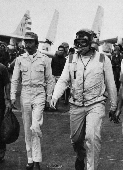 South Vietnamese vice president Nguyễn Cao Kỳ on the flight deck of the aircraft carrier USS Midway (CVA-41) during "Operation Frequent Wind" in the South China Sea.